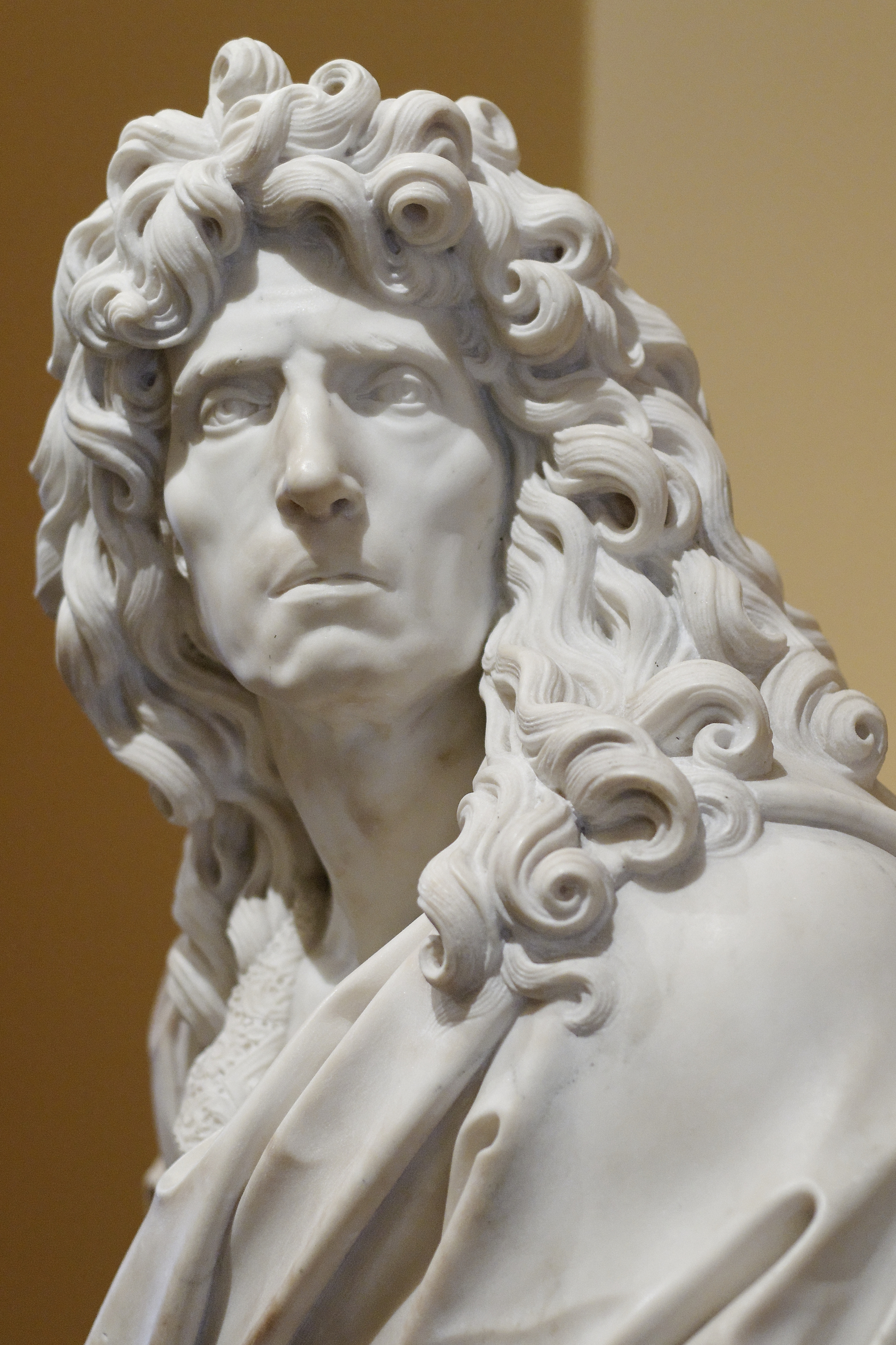 Portrait of Pierre Mignard (1612–1695).